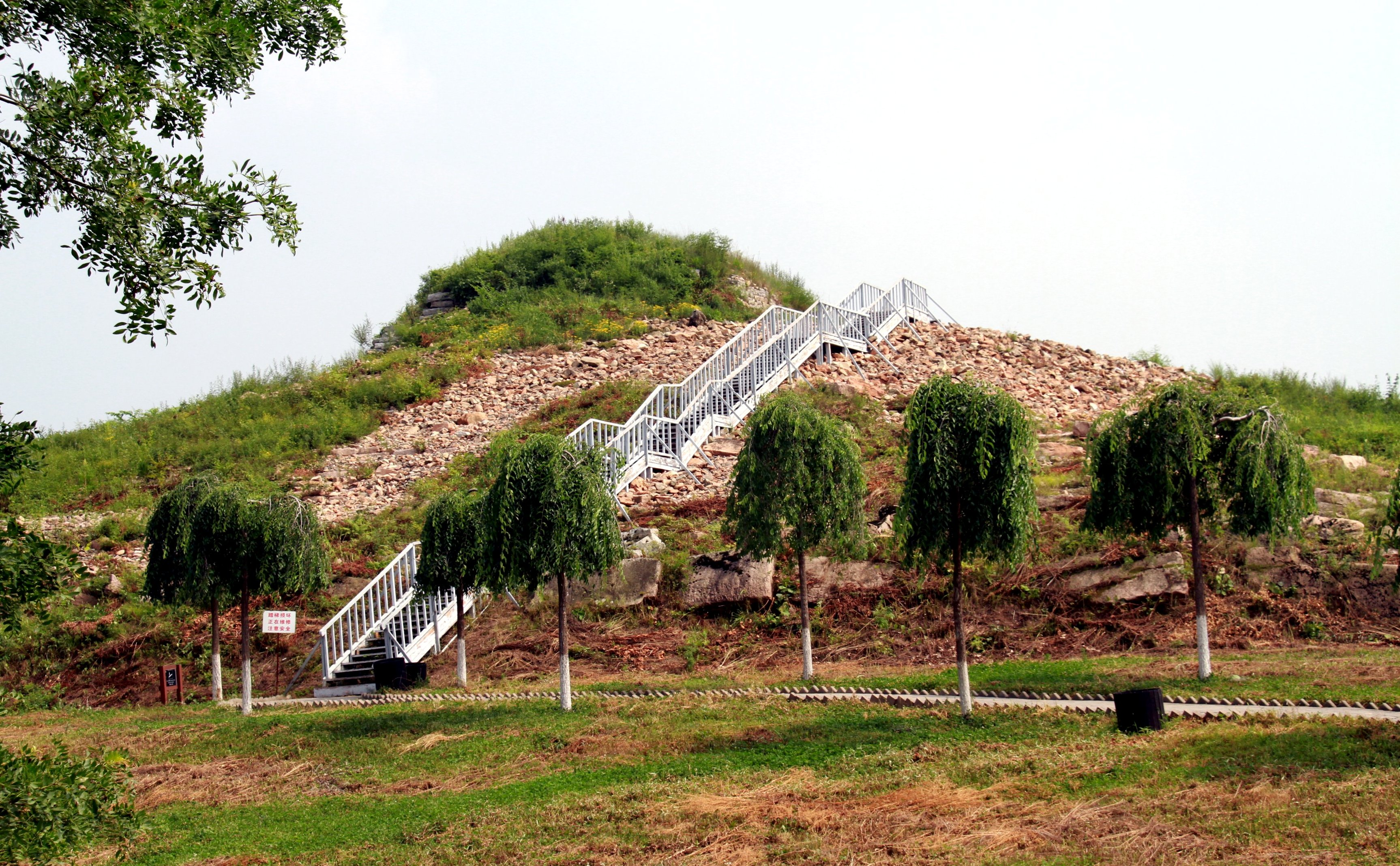 Photo of the burial mound of Gwanggaeto the Great of Goguryeo in Ji'an, Jilin Province, China.